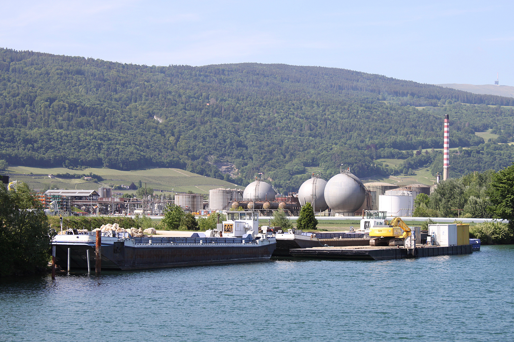 MS "Neptun" moored in the Zihl canal.